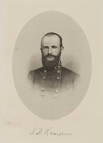 Major General Stephen Dodson Ramseur. The North Carolina Collection Photographic Archives (NCCPA); Folder 3779: Ramseur, Stephen Dodson (1837-1864): Scan 1